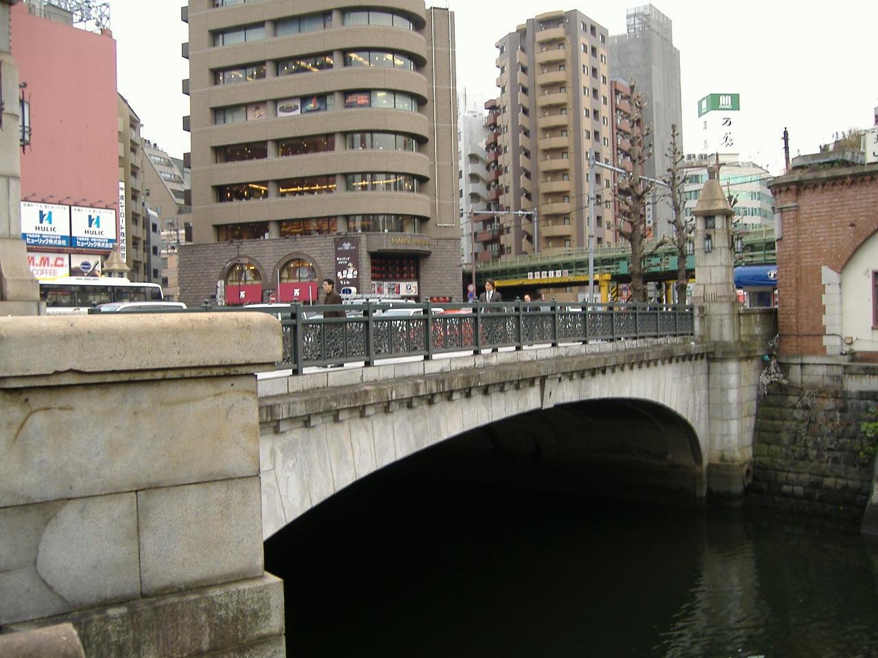 Manseibashi(Tokyo,Japan)